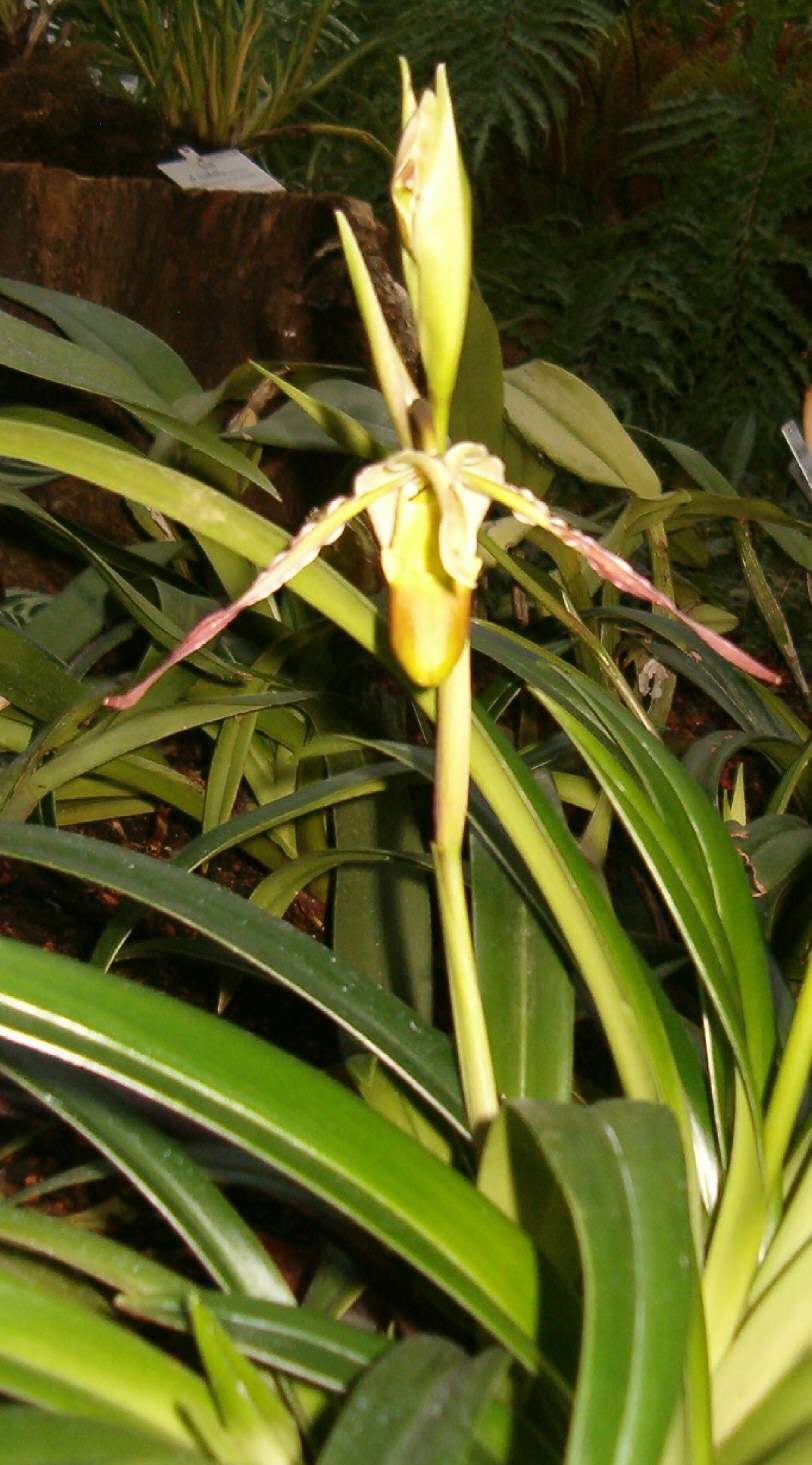 Location: Botanical Gardens Berlin Dahlem